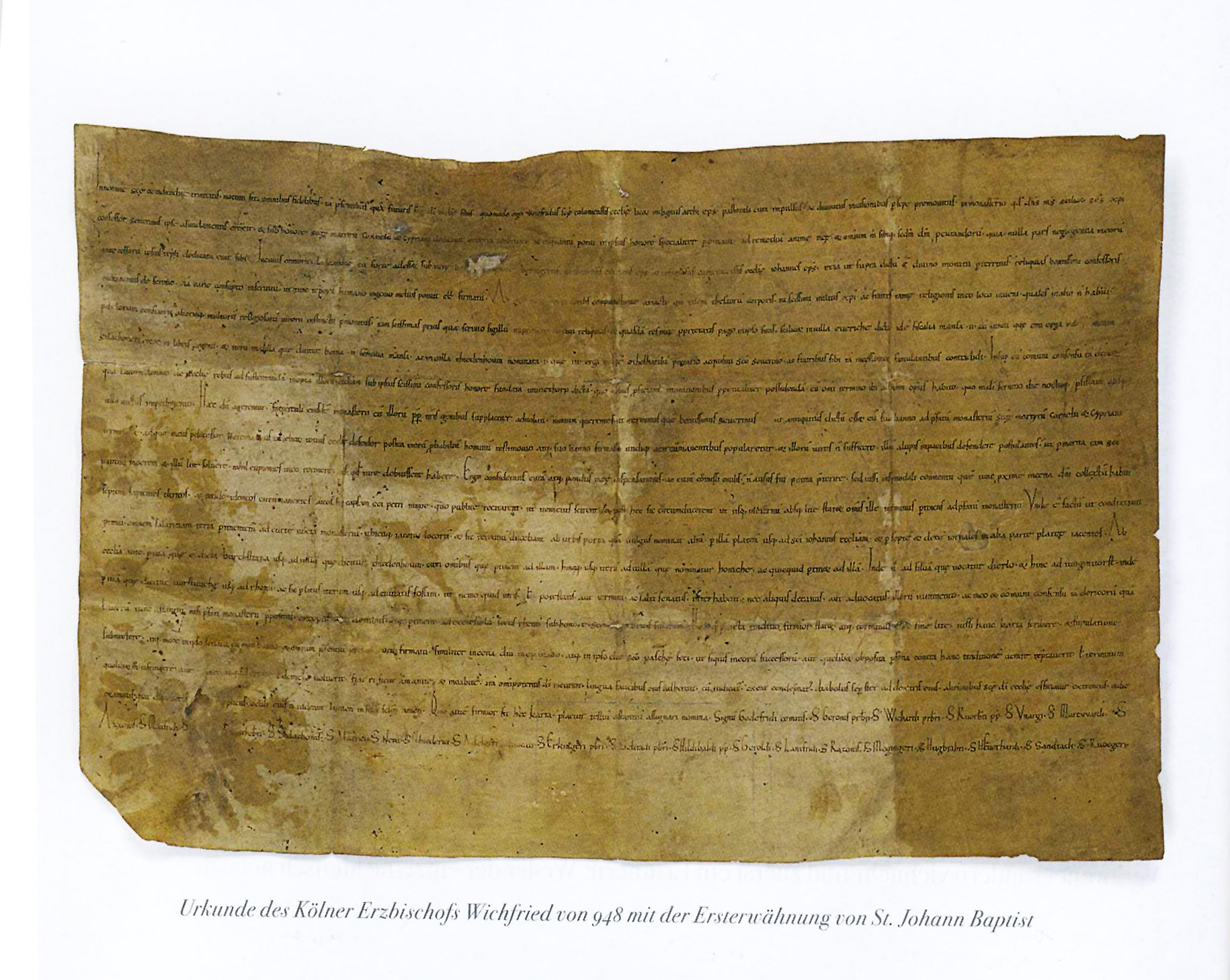 Document of archbishop "Wichfried" in the 10th century, Cologne